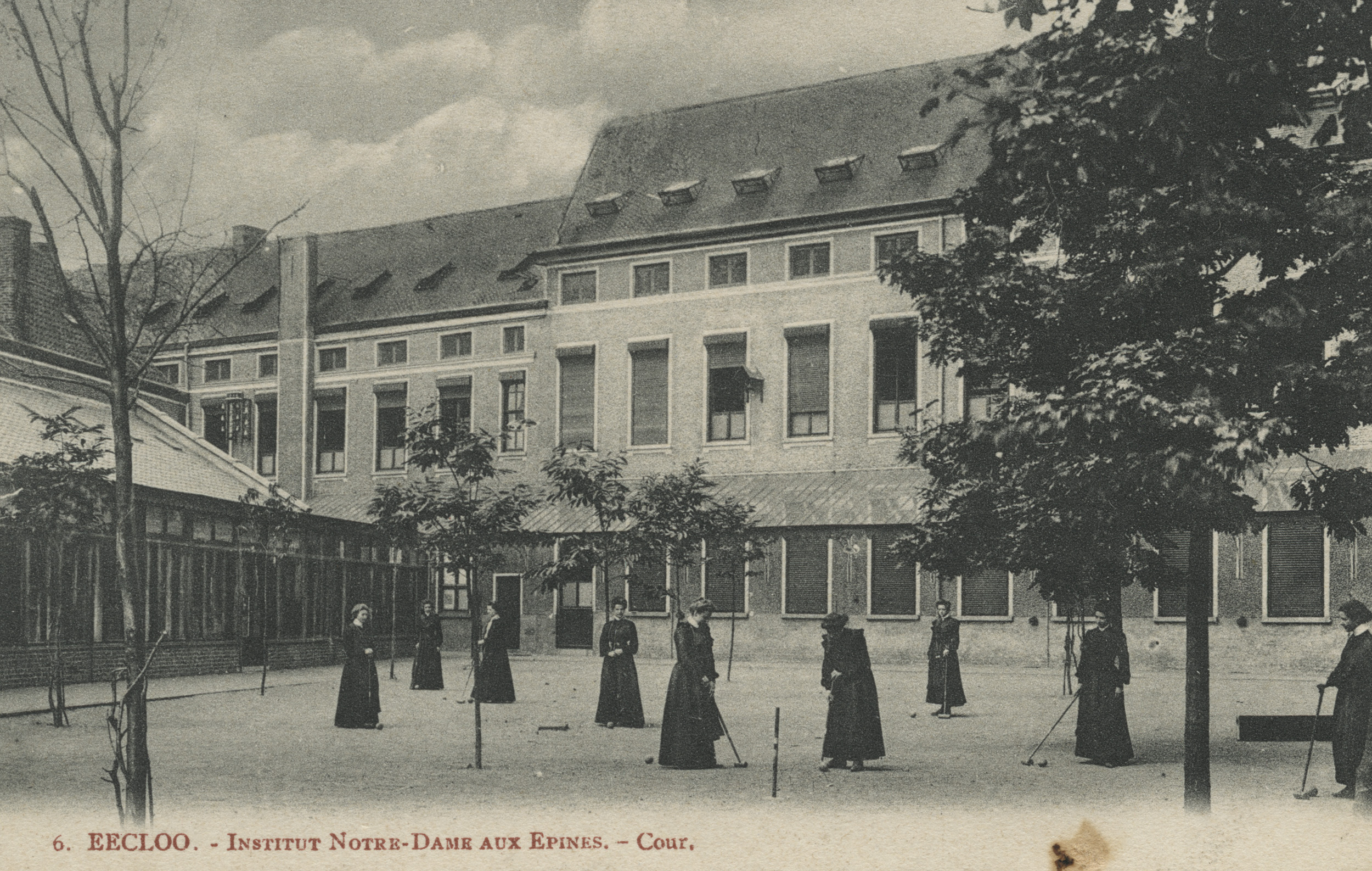 The College O.-L.-V.-ten-Doorn in Eeklo. No known copyright restrictions. Please credit UBC Library as the image source. For more information, see Creator: Unknown Date Created: [between 1910 and 1919?] Publisher: Van Cortenbergh, C. Source: Original Format: Termaine Arkley Croquet Collection, Rare Books Special Collections. The University of British Columbia Library. Permanent URL